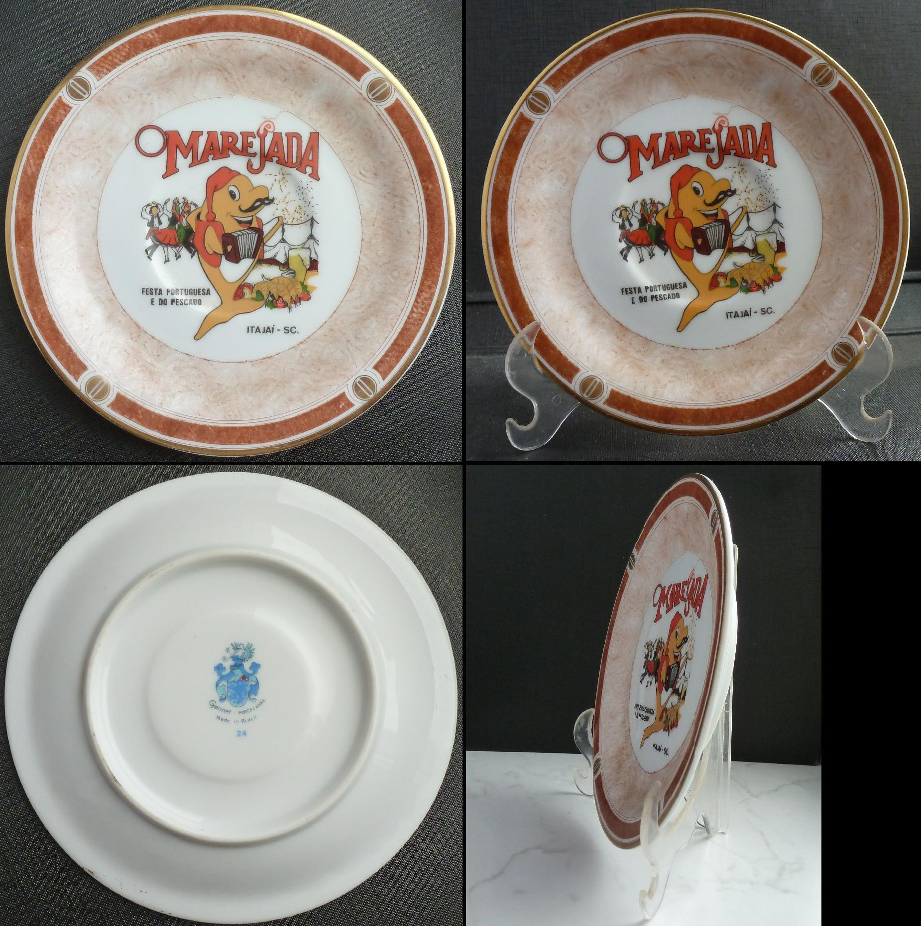 Marejada suvenire plate maden in Brasil by Germer porcelane fabric - Fiesta in Itajai (Brazil).